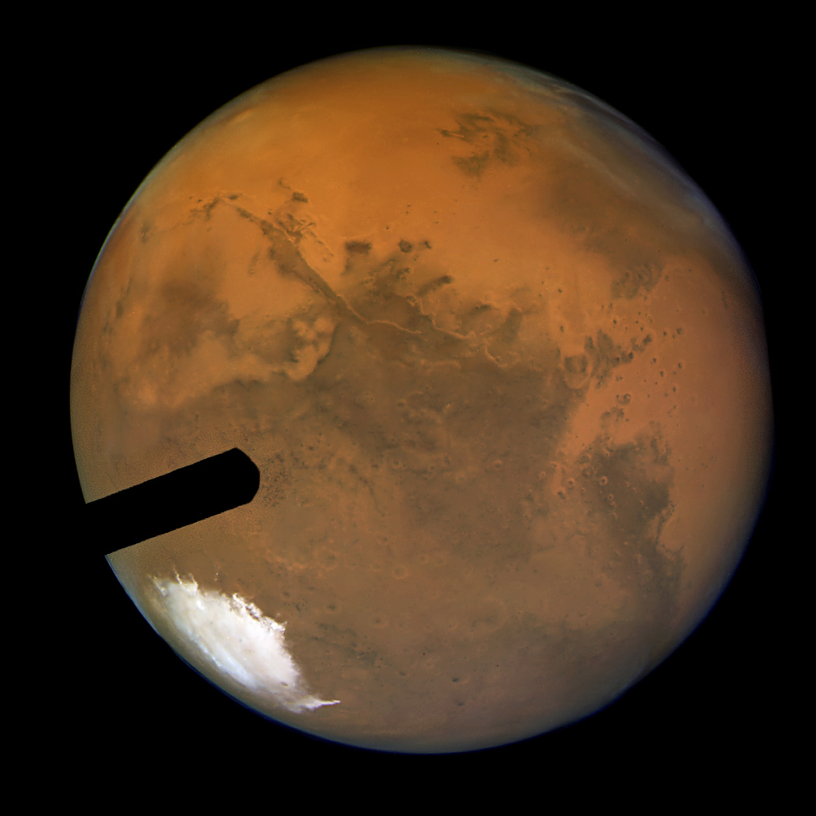 This view of Mars, the sharpest photo ever taken from Earth, reveals small craters and other surface markings only about a dozen miles (a few tens of kilometres) across. (The spatial scale is 5 miles, or 8 kilometres per pixel). The Advanced Camera for Surveys (ACS) aboard NASA/ESA Hubble Space Telescope snapped this image on August 24 2003, just a few days before the red planet's historic "close encounter" with Earth.